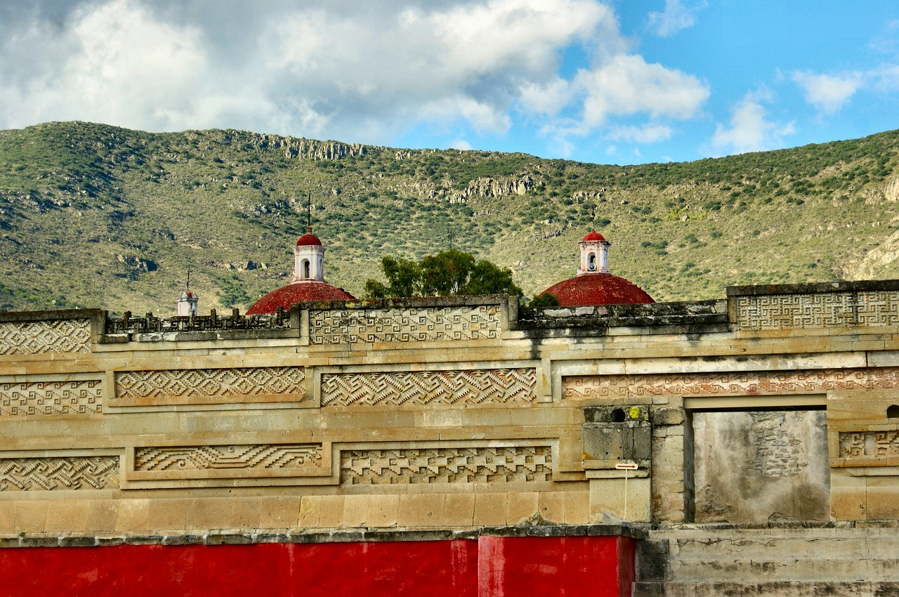 Mitla